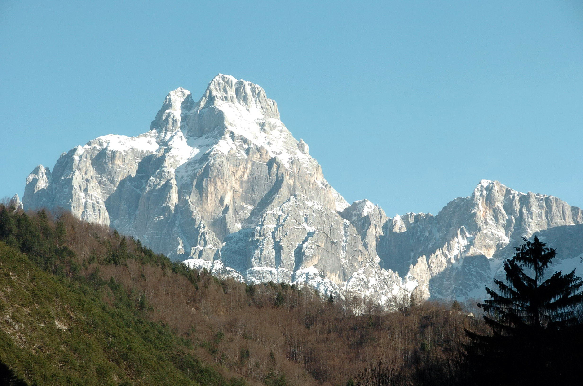 Mount Montasio in the Julian Alps, municipality Dogna, Friuli-Giiulia Venezia / Italy / EU